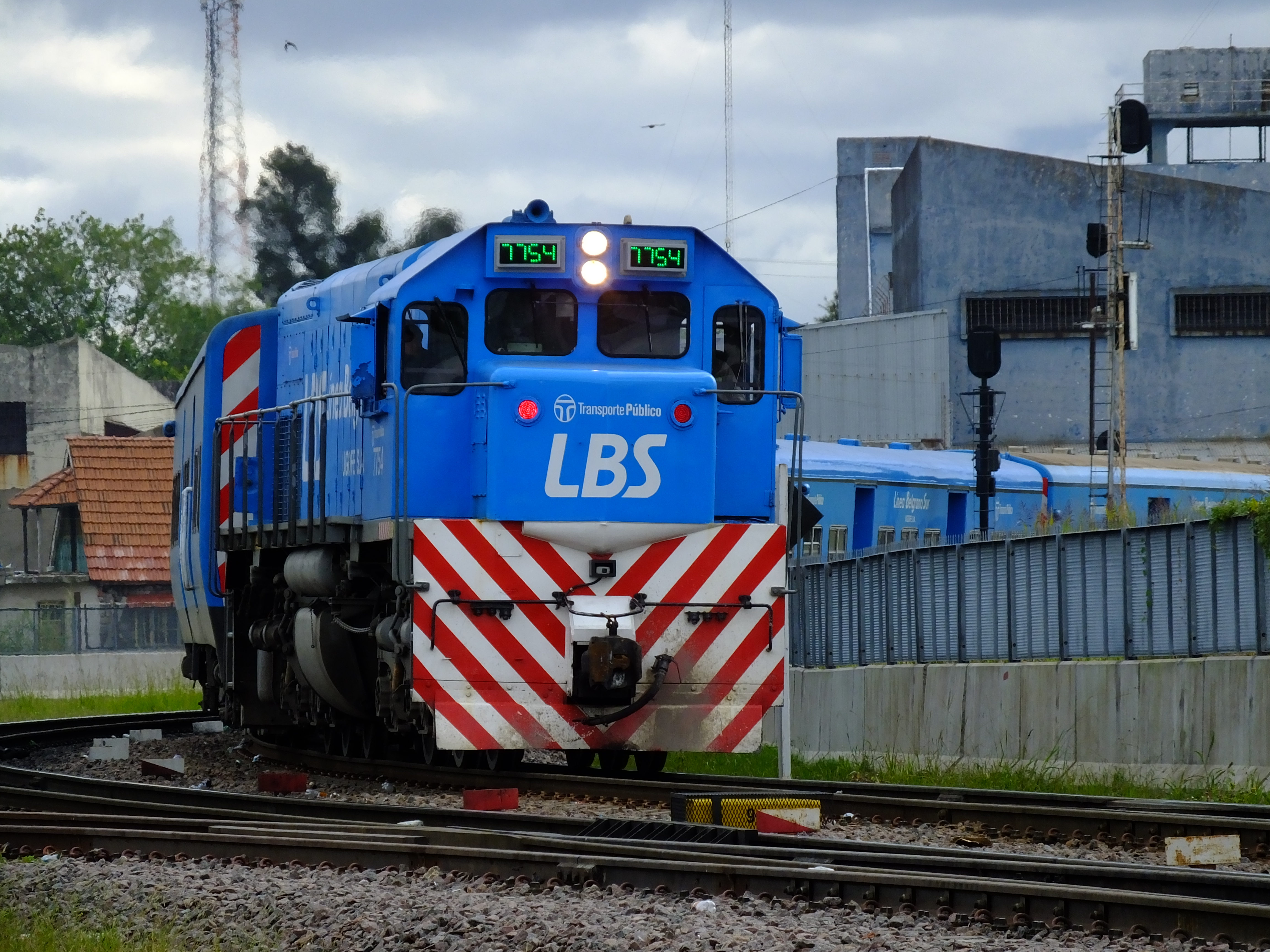 A Belgrano Sur Line EMD G22 locmotive carrying passenger cars, near Buenos Aires station.